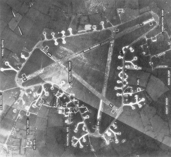 Aerial photograph of Framlingham Airfield, England. NOTE : This version is rotated to show North approximately at top. For original version with West approximately at top see File:Framlinghamafld-21jun1946-original.jpg.